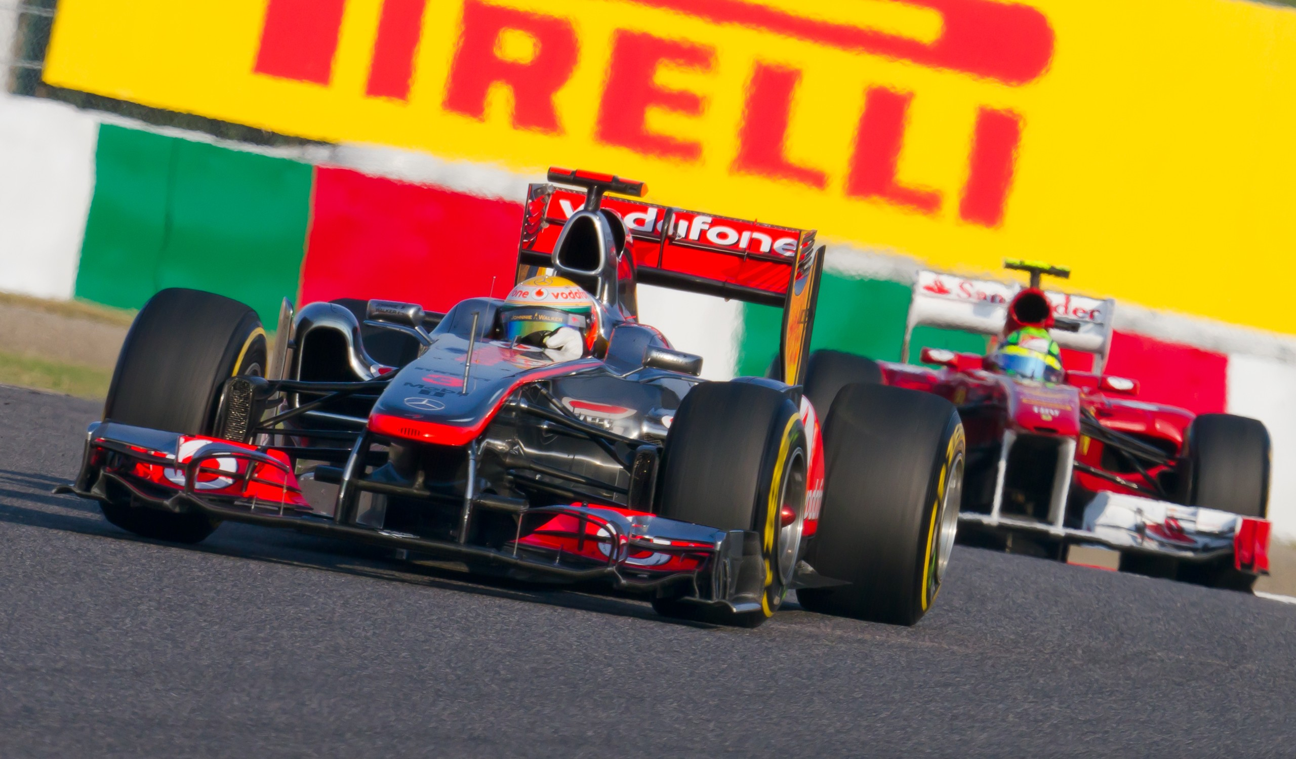 Formula One 2011 Rd.15 Japanese GP: Lewis Hamilton (McLaren) and Felipe Massa (Ferrari) during race.